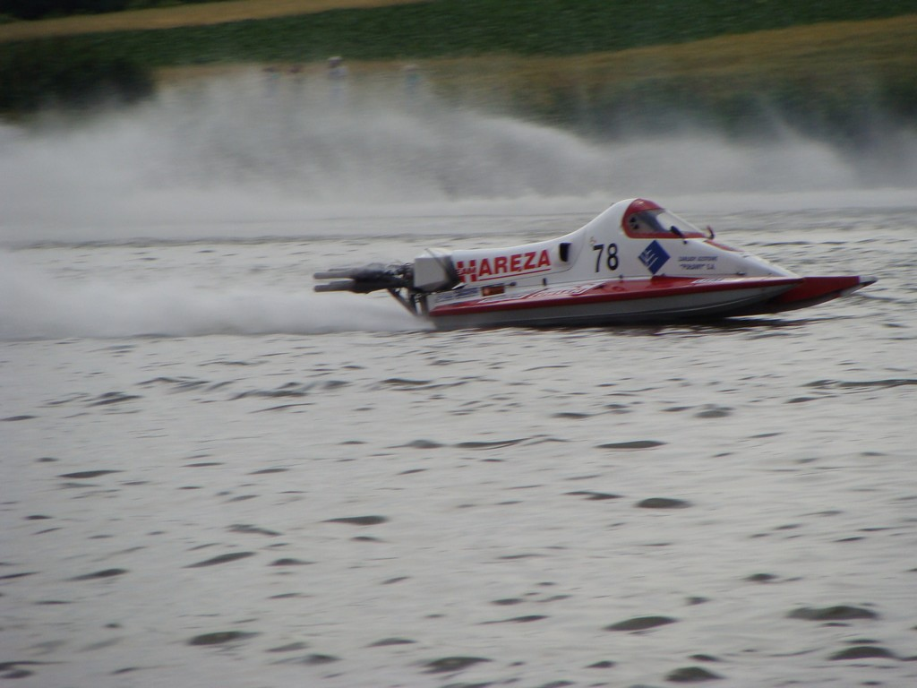 Śrem, the Europe Motorboat Championship 2008, vehicle of Tadeusz Haręza.